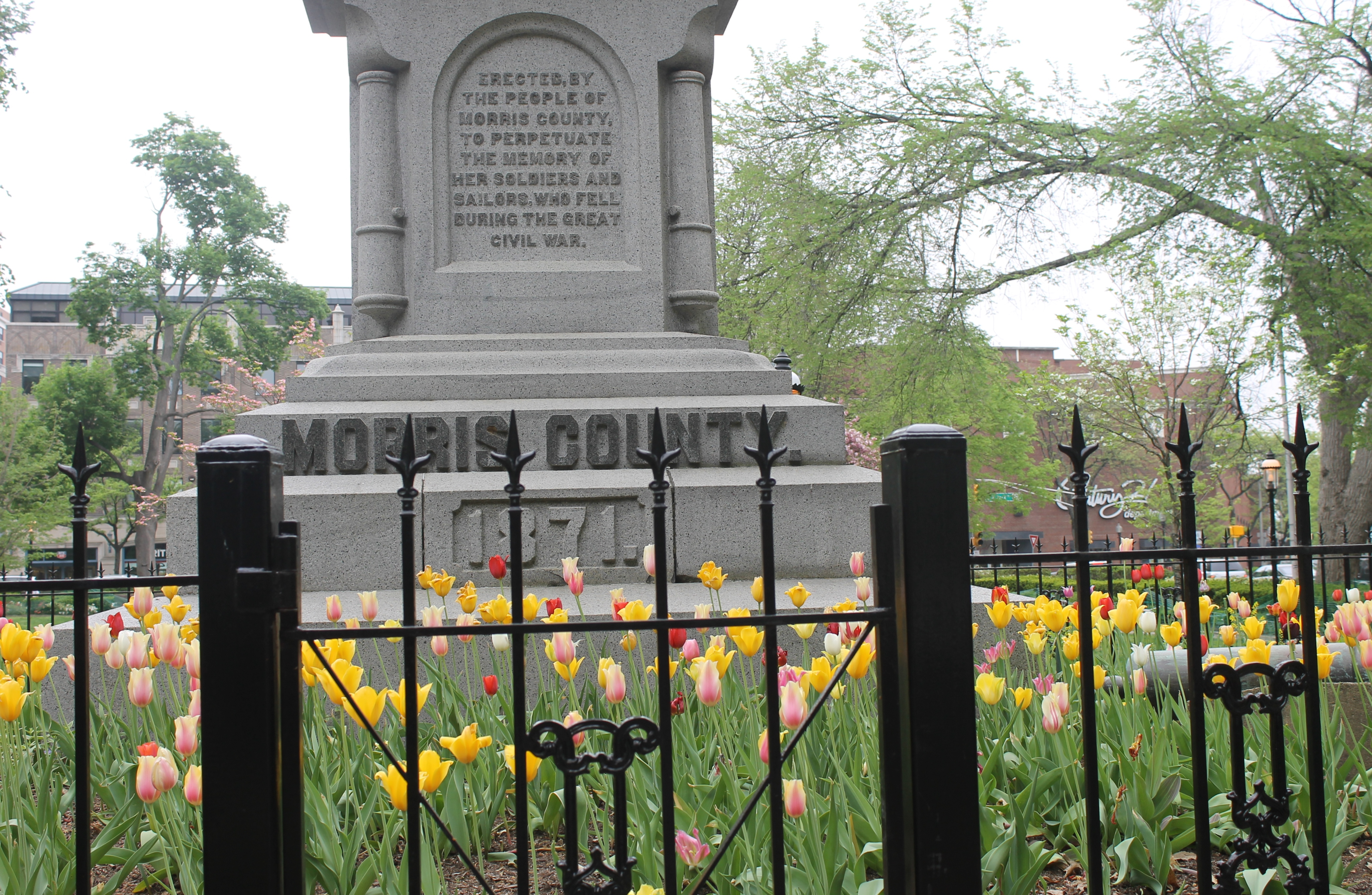 Civil War memorial in Morristown, NJ (1871)